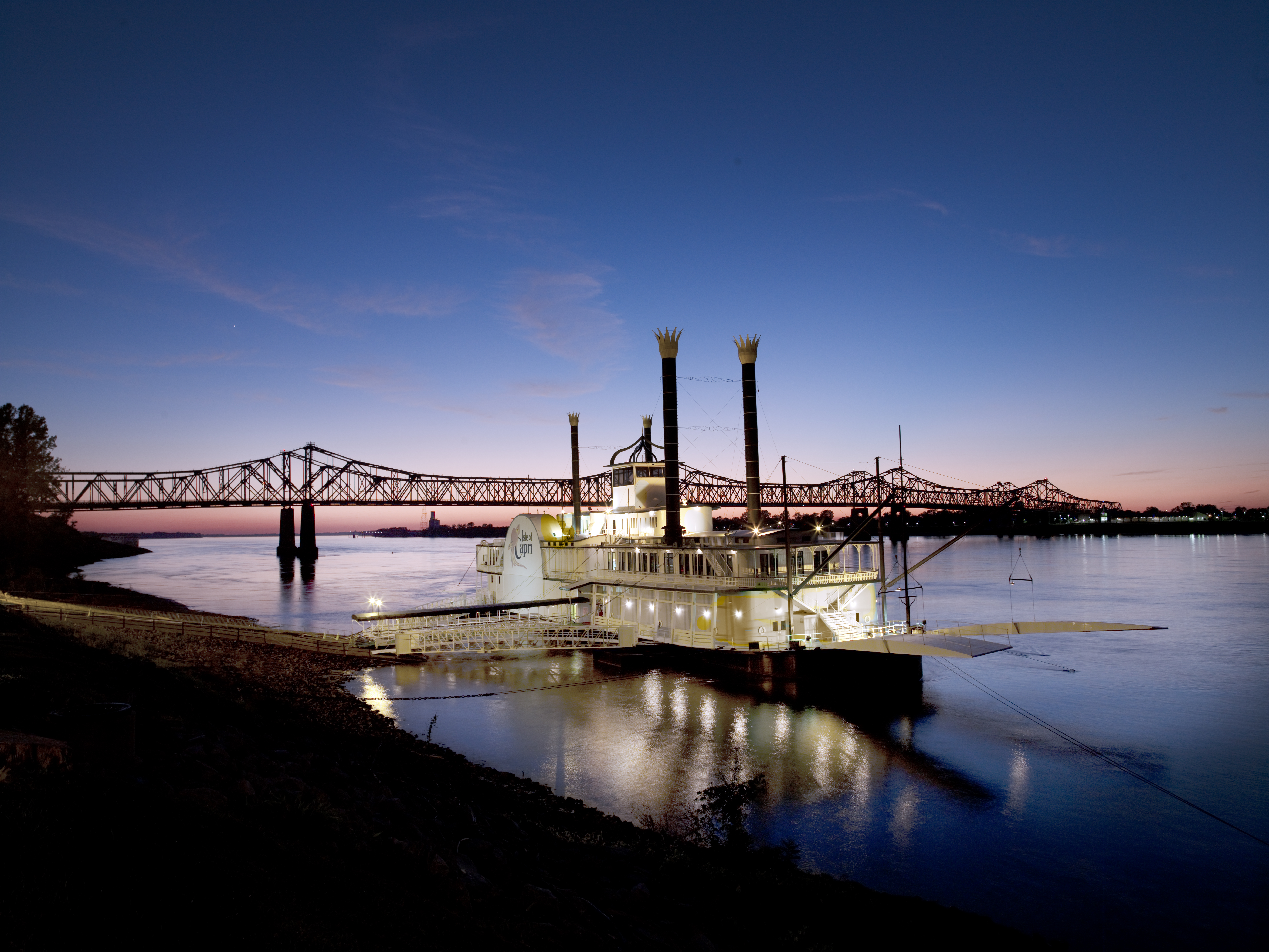 Casino Boat on the Mississippi River, Natchez, Mississippi